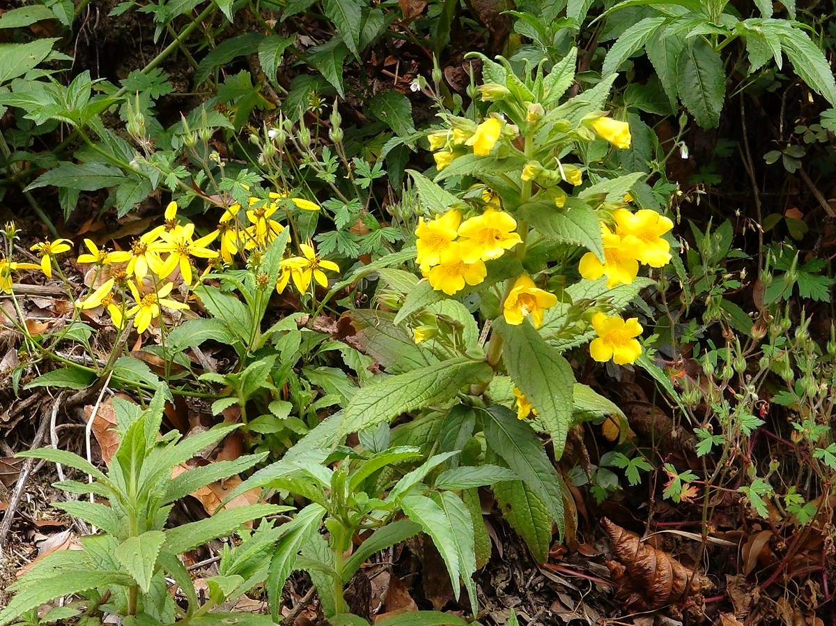 Hemichaena fruticosa. Costa Rica, northern Cordillera de Talamanca, Savegre valley near San Gerardo, ca. 2300 m above sea level.